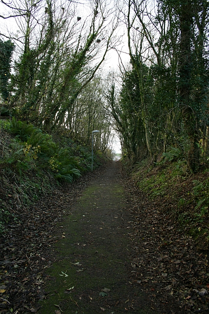 Railway Cutting in Campbeltown The line was a 2 foot 3 inches gauge railway opened in 1887. Initially it ran from Machrihanish Colliery (Kilkivan, Drumlemble, Argyll Colliery) to a coal depot and pier in Campbeltown. It was extended westwards to Machrihanish. Upgraded and opened for passenger traffic in 1906, the line did not have stations per se, but rather places where the train halted to pick up passengers. Many of the passengers were day trippers from Glasgow as a turbine steamer would bring passengers to Campbeltown early enough to catch a train to Machrihanish and allow a return journey all in one day. The line was formally closed in 1933.